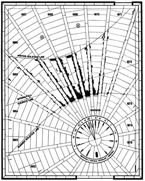 Patten of Names and Slabs